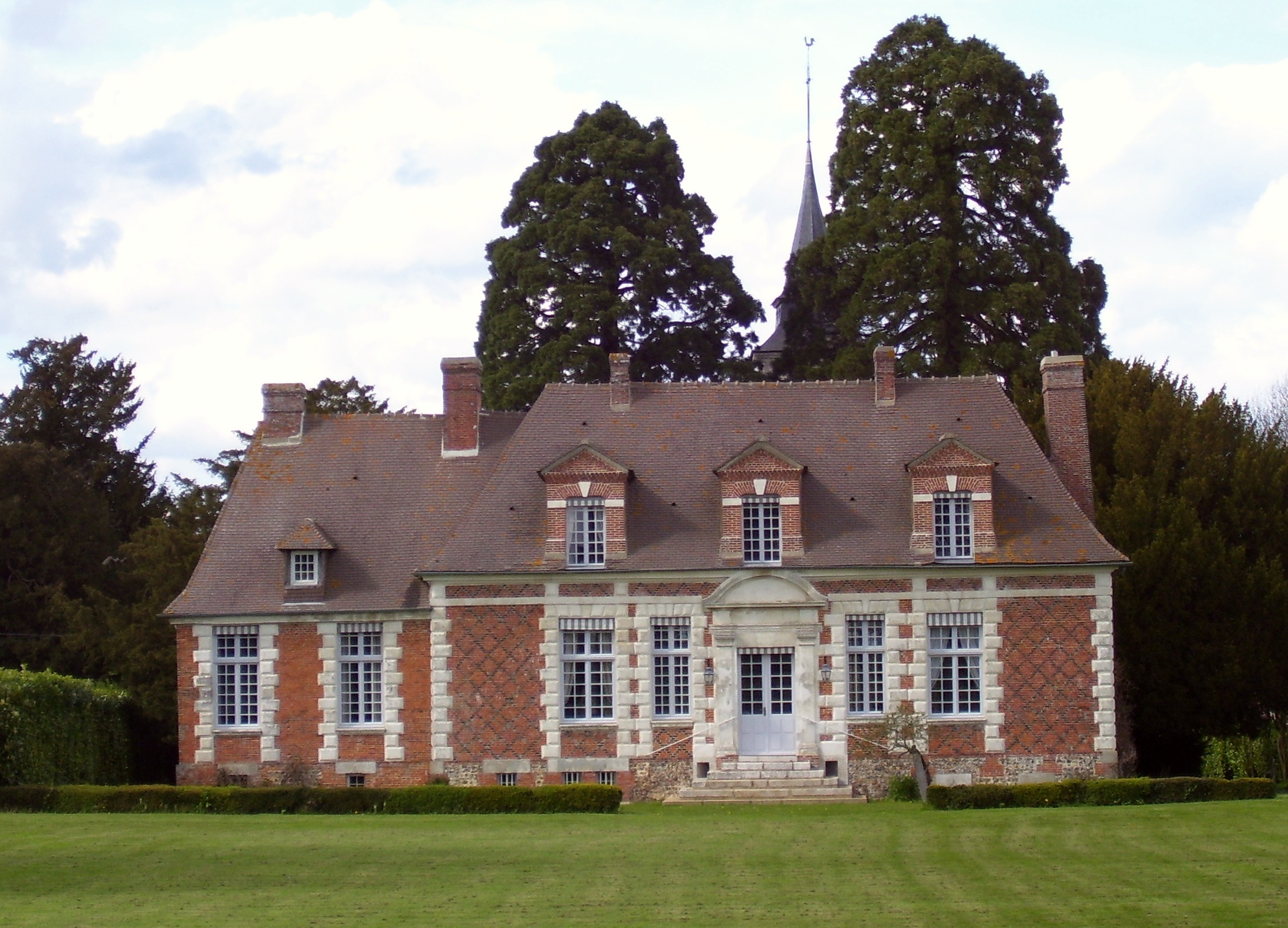 Back side of the Manoir de Berthouville (Eure, France), a hunting lodge that was built in 1652.